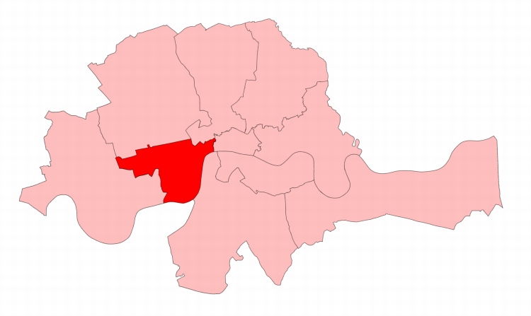 A map of Westminster constituency within the Metropolitan Board of Works area, as it existed from 1868 to 1885.